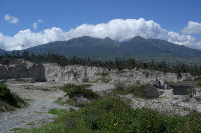 Part of the Chachimbiro volcanic complex, located about 25 km NW of the city of Ibarra, is seen from the south. The late Pleistocene-to-Holocene, NNE-trending dacitic Chachimbiro-Pucará line of lava domes includes the Pitzantzi lava dome, which erupted about 5700 years ago, producing an ash deposit that extends to the NW. Hot springs and thermal areas are present at the Chachimbiro complex. Quarries in the foreground are cut into deposits from the caldera-forming eruption of Cuicocha volcano.